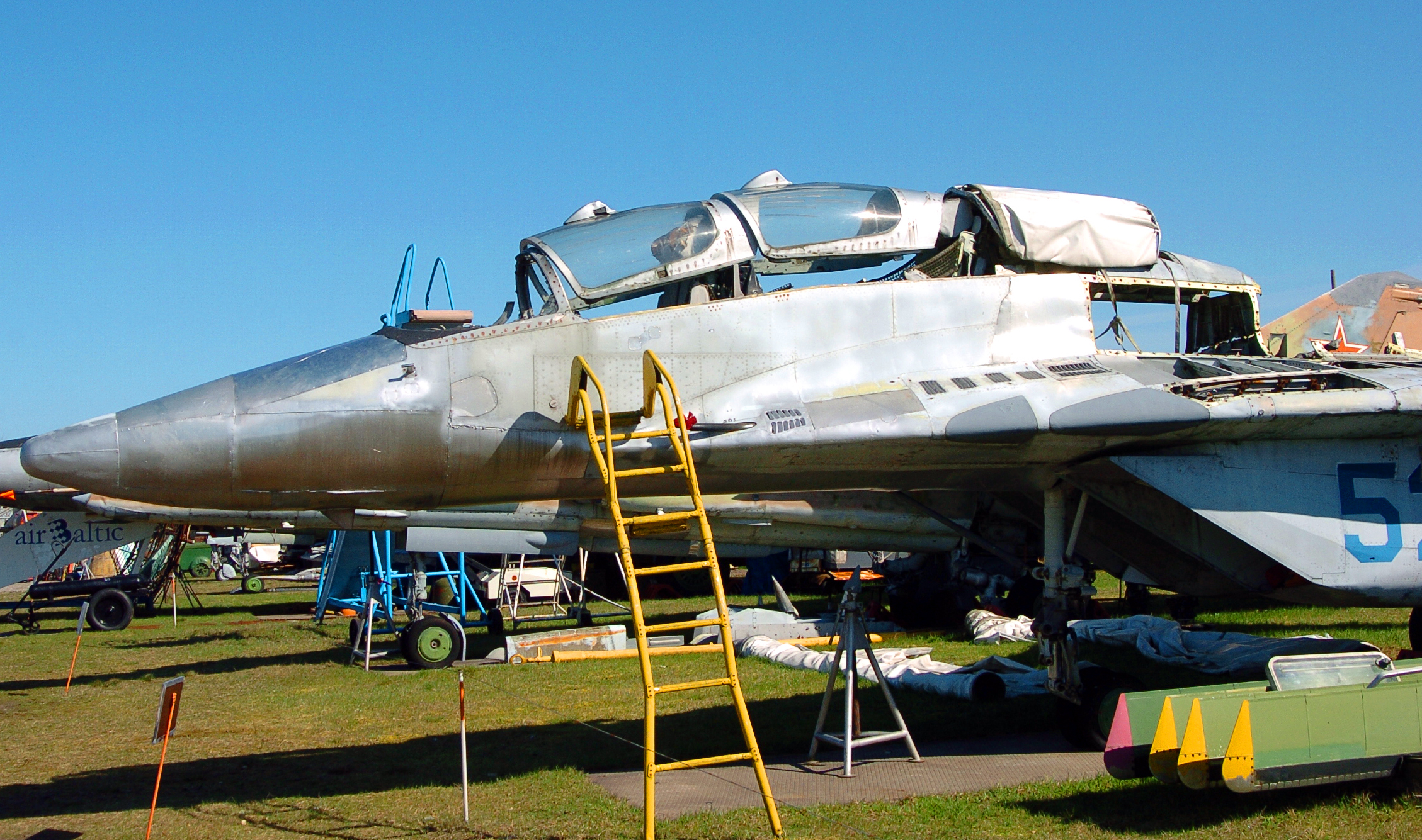 Remains of Mikoyan MiG-29UB prototype (9-52) at Riga Aviation Museum, Latvia.